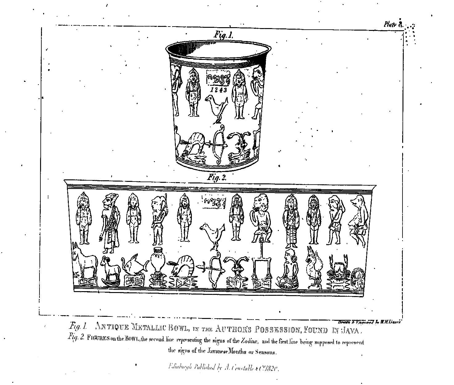 Signs of Months in Javanese Calendar. The caption read: Fig 1: Antique metallic bowl, in the author's possession, found in Java Fig 2: Figures in the Bowl, the second line representing the signs of Zodiac, and the first line being supposed to represent the signs of Javanese months or seasons.